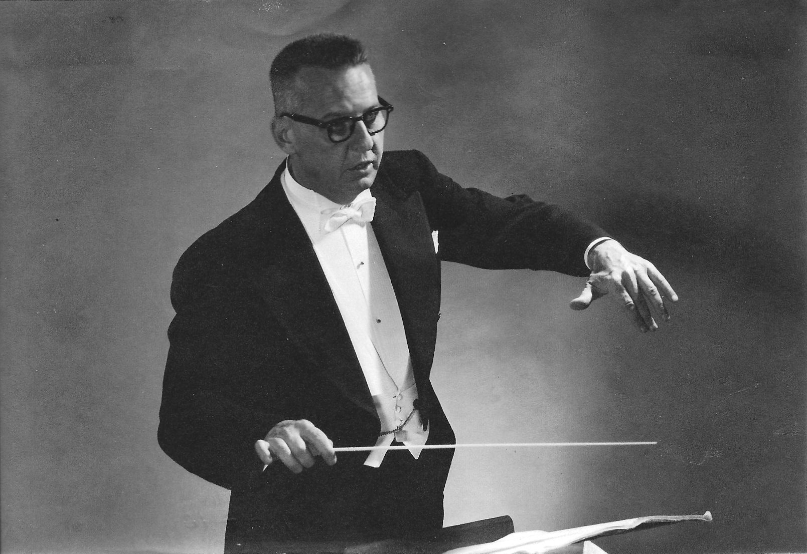 James Sample, American orchestra conductor